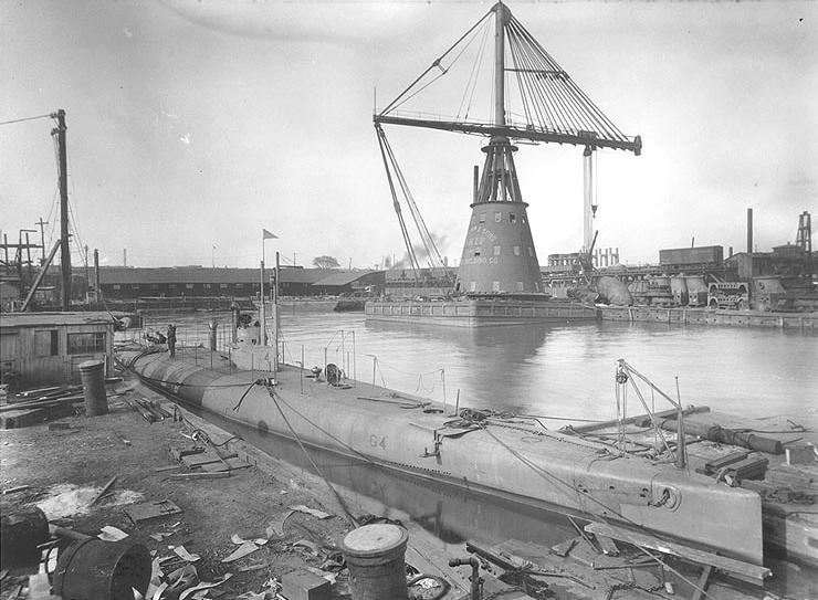 A cropped photograph of the USS G-4 during her fitting out at the William Cramp & Sons shipyard, Philadelphia, Pennsylvania, on 2 October 1912. Note the shipyard crane barge in the background. Other version: File:Thrasher (SS26), renamed G4. Starboard bow, at dock, 10-02-1912 - NARA - 512928.tif - large TIFF